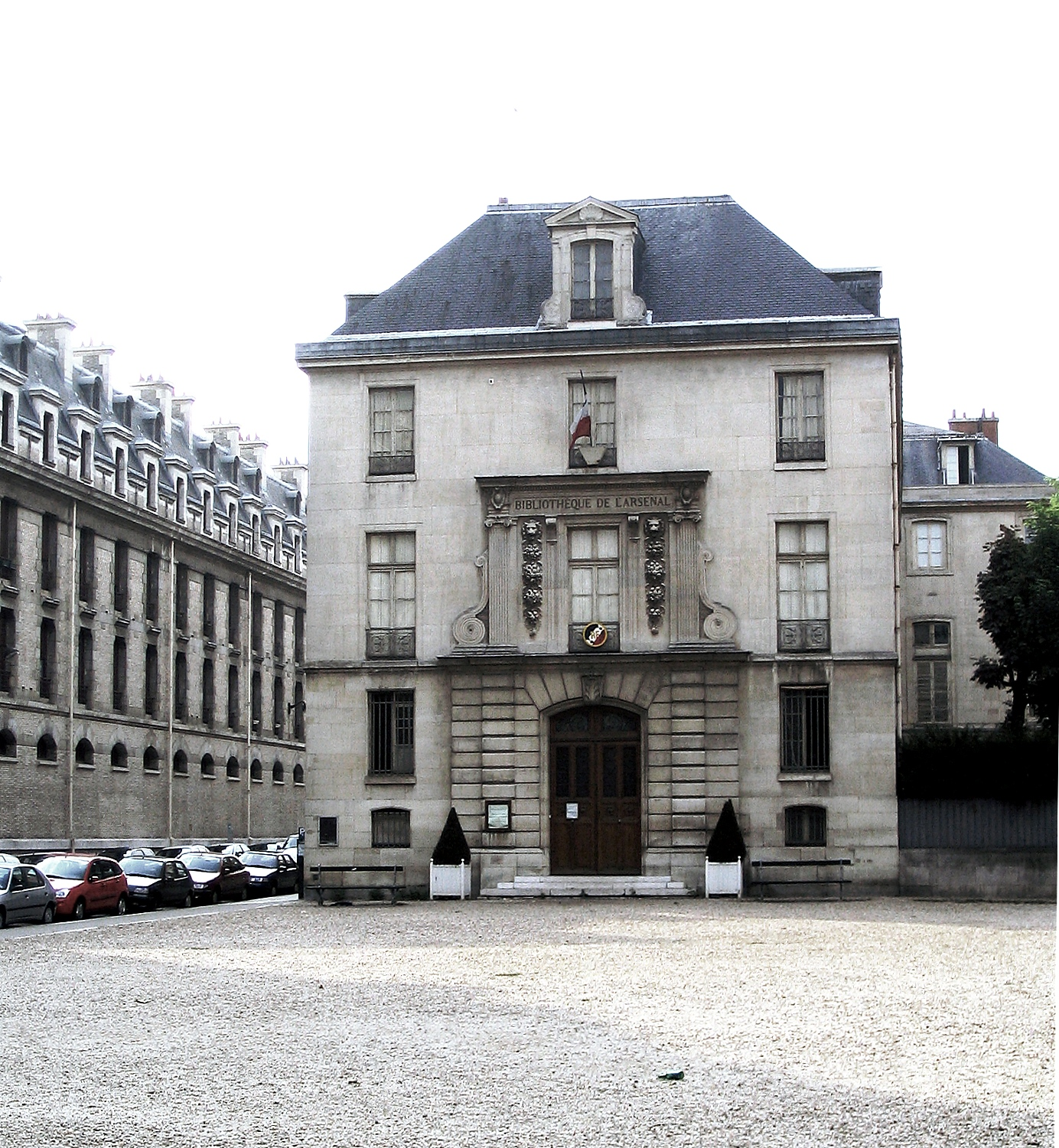 Bibliothèque de l'Arsenal - Paris